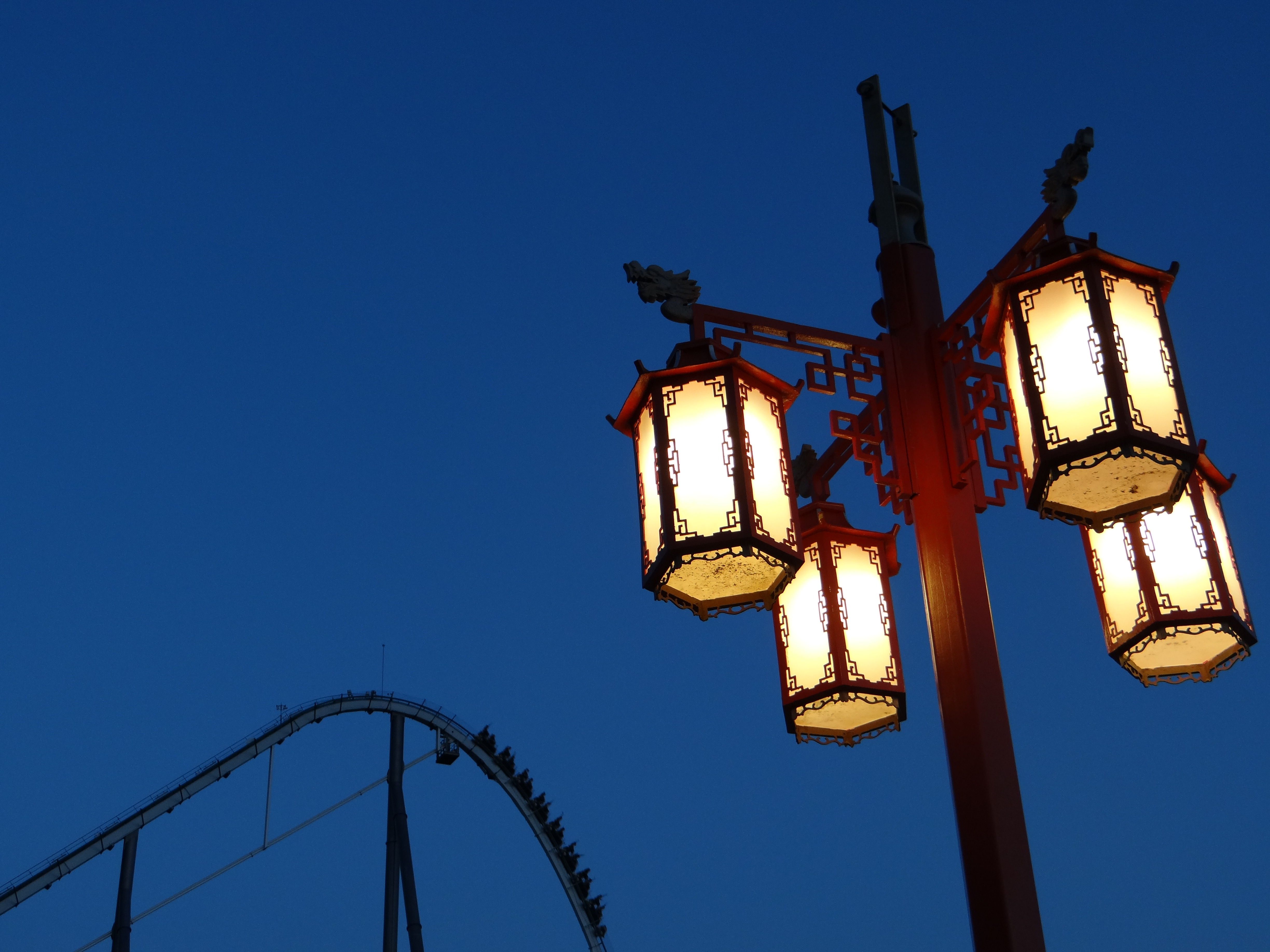 Shambhala is an hypercoaster sited in PortAventura Park (Salou, Spain)